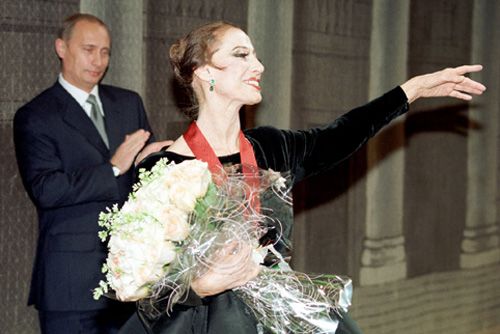 THE BOLSHOI THEATRE, MOSCOW. President Putin wishing famous Russian ballet dancer Maya Plisetskaya a happy birthday and presenting her with the Order for Services to the Fatherland of the 2nd Class.